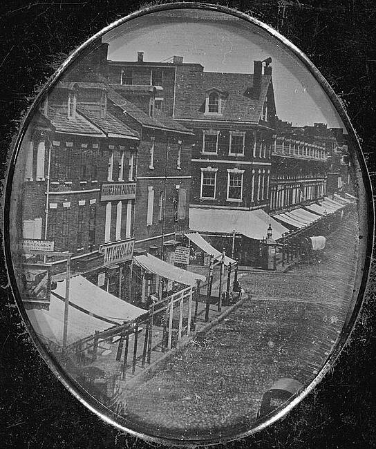 Daguerreotype of Philadelphia, Pennsylvania, at the corner of 8th and Market Streets